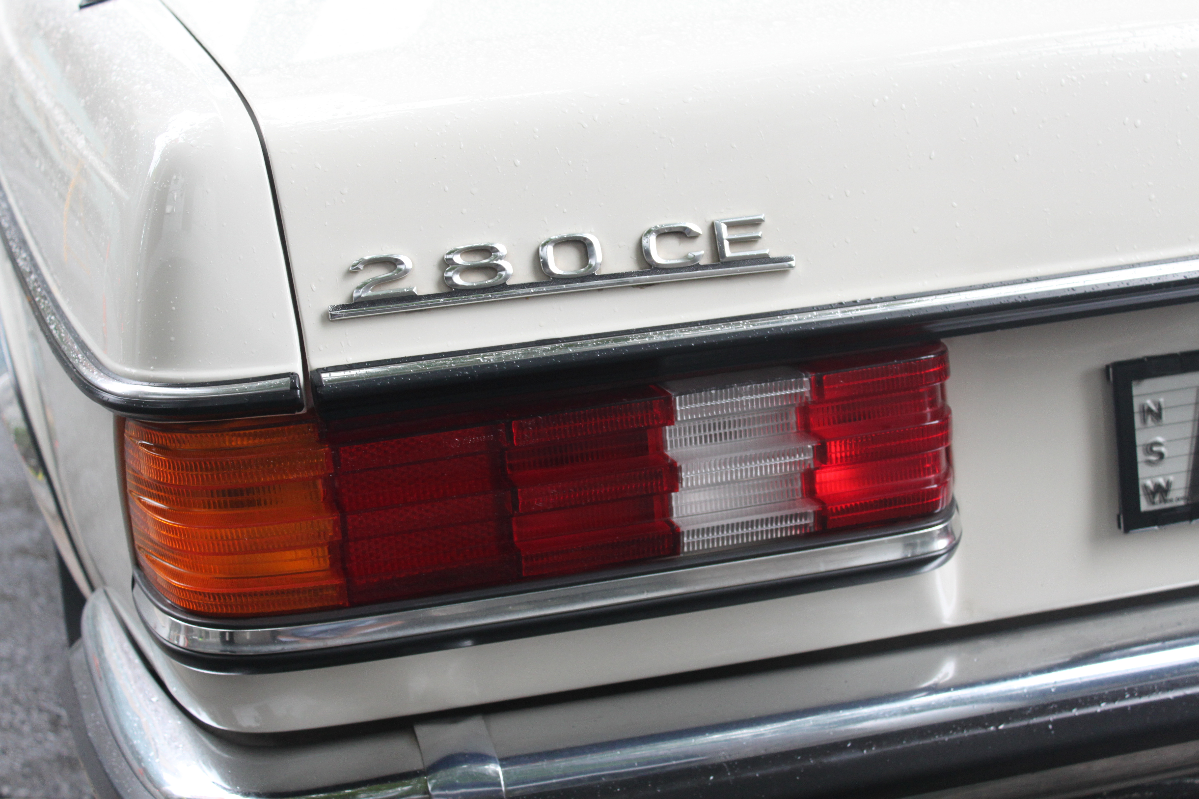 CARnivale, Australia Day, Sydney 2015